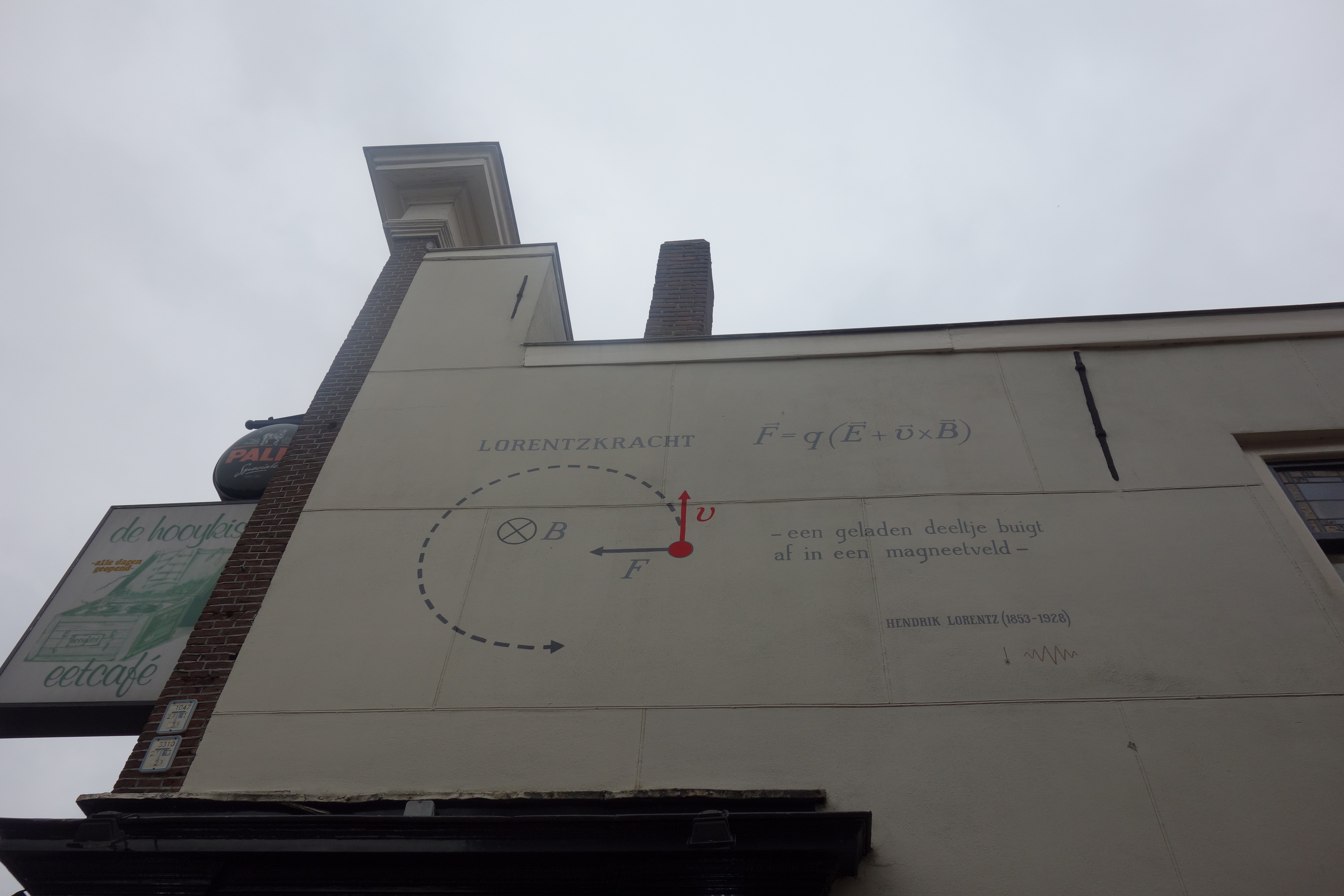 Formula Lorentz power on a wall at Hooigracht 49 in Leiden (the Netherlands). F L = F e + F b = q ( E + v × B ) {\displaystyle \mathbf {F} _{L}=\mathbf {F} _{e}+\mathbf {F} _{b}=q(\mathbf {E} +\mathbf {v} \times \mathbf {B} )}